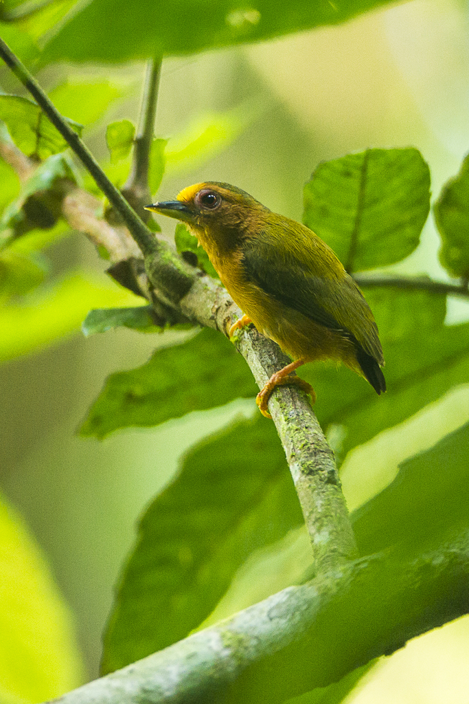 Rufous Piculet - Krung Ching - Thailand_S4E3808